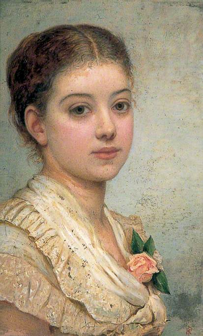 Portrait of Mary Angela Dickens (1862-1948) by her aunt, Kate Perugini (1839-1929).